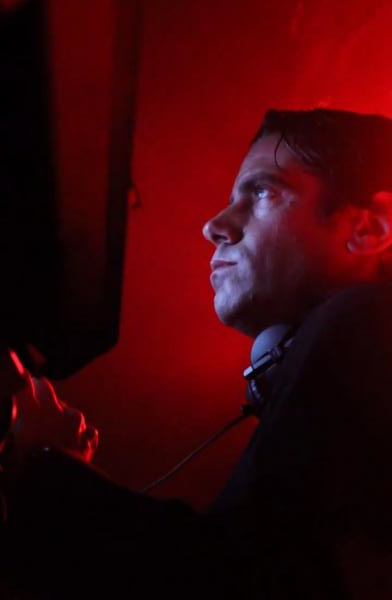 Fluxion in Copenhagen 2010